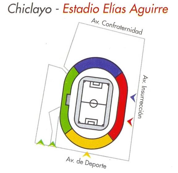 Generic Image of the Estadio Elias Aguirre. Anyone who has an actual photo of this stadium may upload it in place of this one.